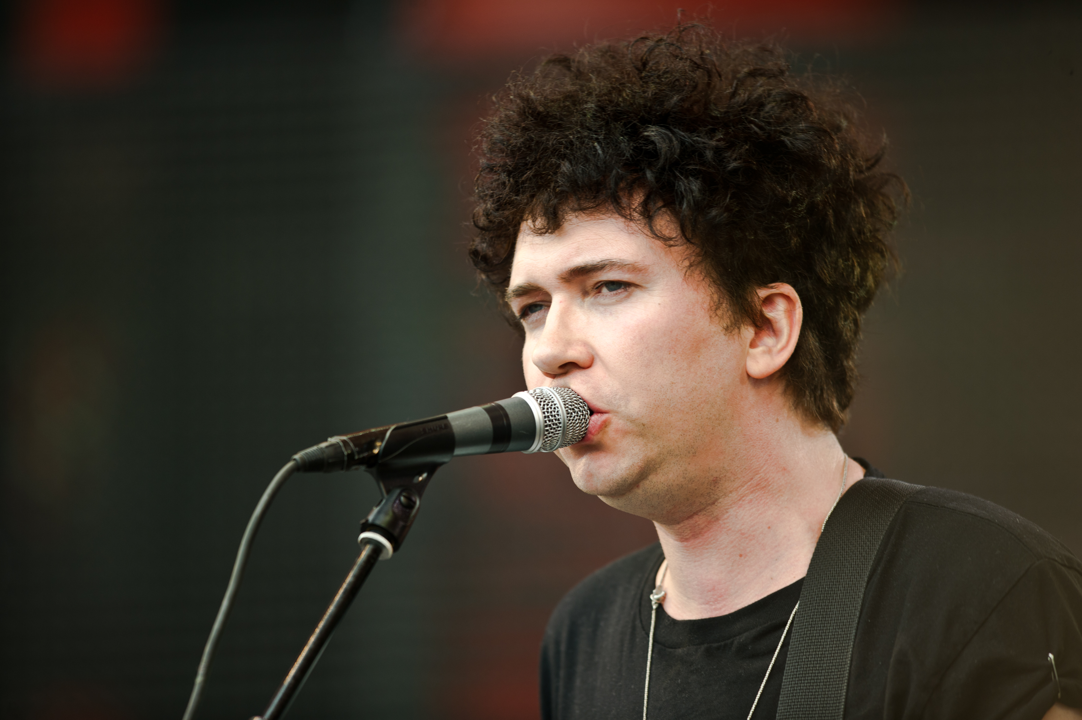 Sune Rose Wagner performing with The Raveonettes at Roskilde Festival 2011.